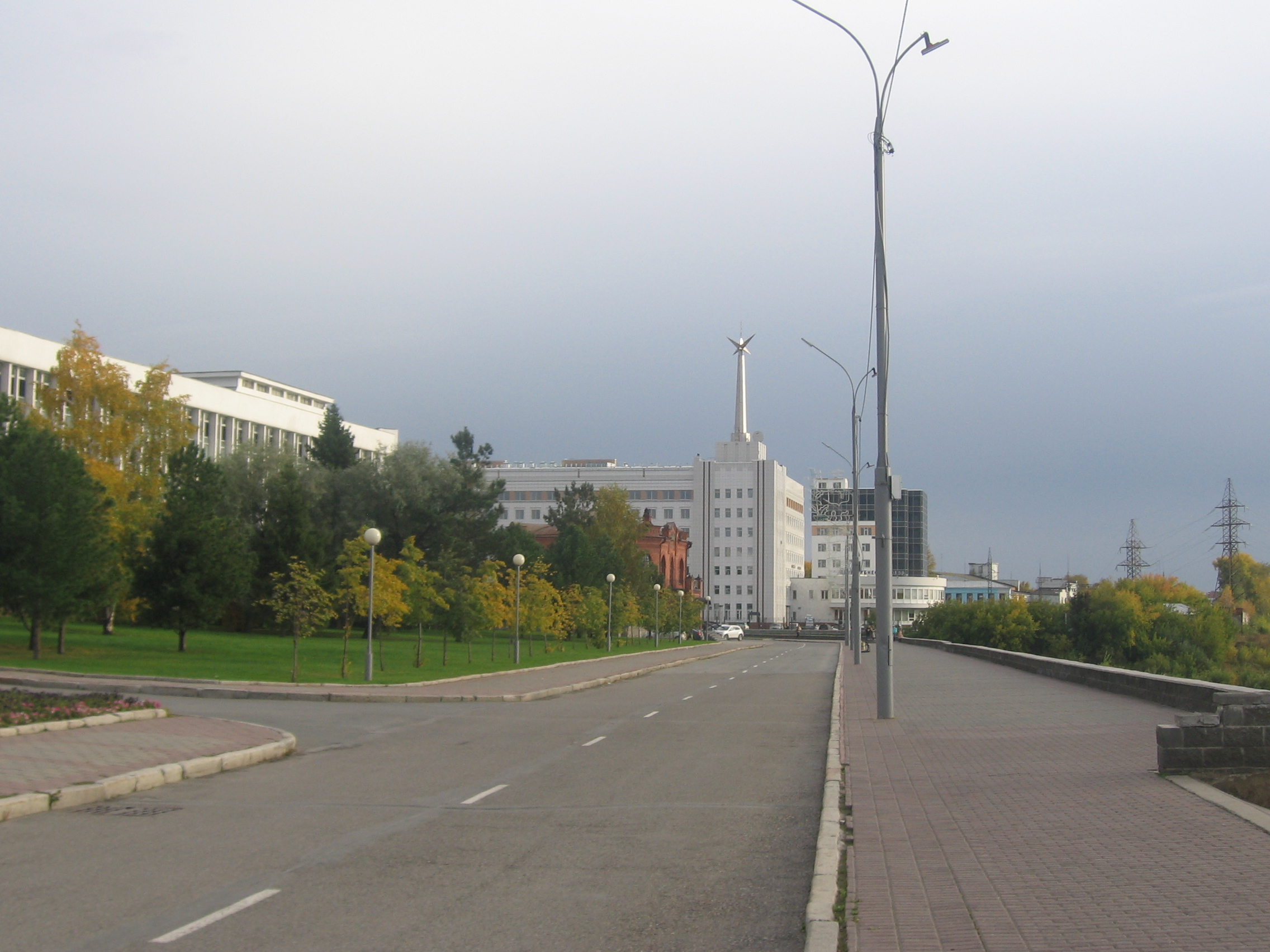 Riverfront in Tomsk